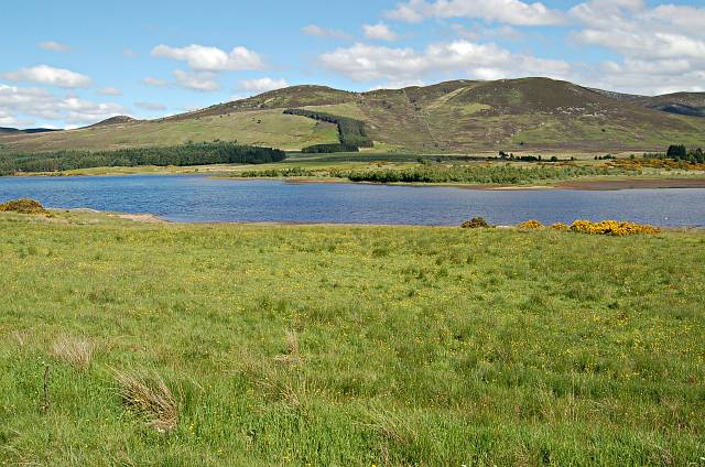 Loch Farraline / Mhor. Loch Farraline and Loch Garth were two separate lochs in Strath Errick until 1896 when the British Aluminium Co raised the level of the larger Loch Garth just sufficiently to merge the two lochs into one much larger loch which they rather imaginatively named Loch Mhor. BACo used a series of tunnels and pipes to bring the water down to Foyers on Loch Ness. This gave them a workable head of water of around 180mts, enough to run a conventional hydro electric scheme. The electricity generated was used to power the smelter and was the first large scale use of Hydro electric in Britain. The smelter at Foyers closed in the late 1960s and the North of Scotland Hydro Electric Board took over the scheme. They uprated it to a Pumped Storage Scheme to produce power for the National Grid. They also increased the water catchment area by diverting another river, the Fechlin, into the loch. Although Foyers can be run as a conventional hydro power station its real value is as an emergency boost to the national grid during peak demand times. It is also an emergency standby which can be used to provide power for a short time if a major power station goes of line without warning. Like Cruachan and Dinorwig the power station at Foyers can go from zero to full power in less than 120 seconds. The water released can then be pumped back up during the night when demand for electricity is low or the loch can just be allowed to refill naturally, probably a bit of both. When the water is released then briefly Loch Mhor once more becomes two lochs again